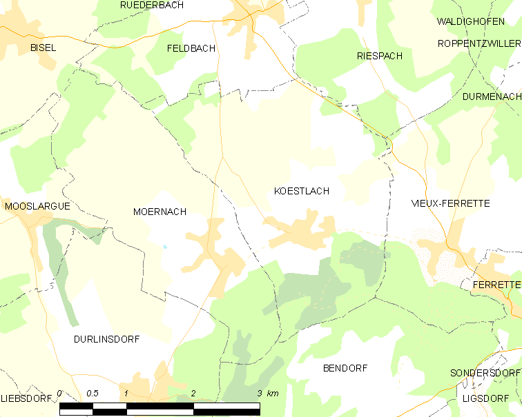 Map of French municipality